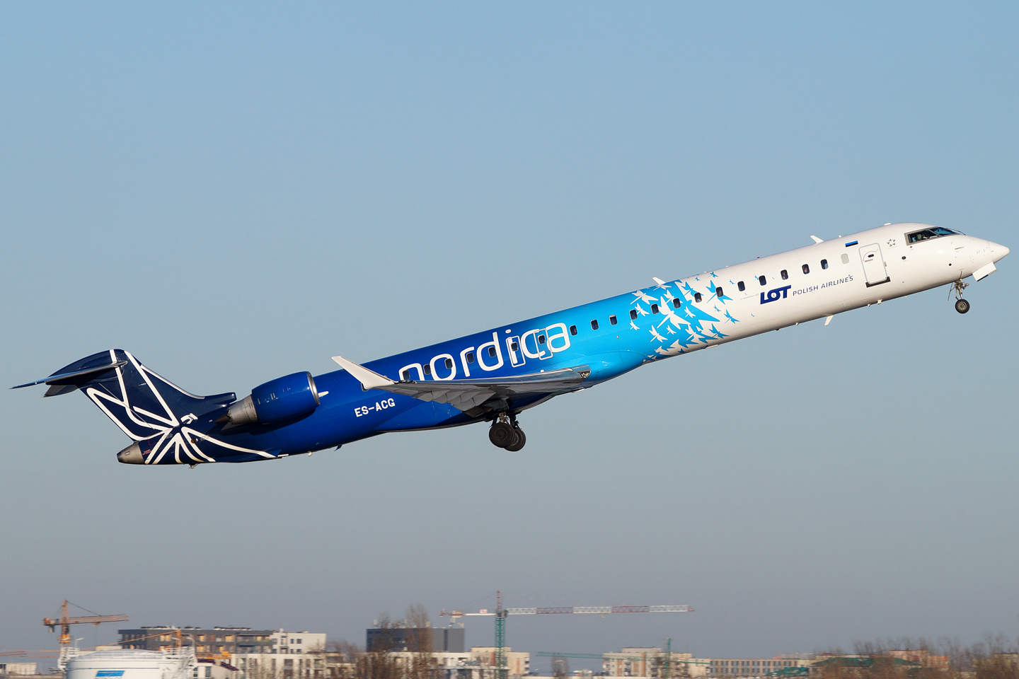 Bombardier CRJ-900 reg ES-ACG is departing from Warsaw Chopin Airport to Tallinn as LO 787